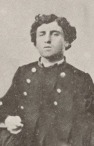 Prince Ilia Chavchavadze, 1848 Georgia